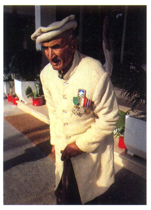 Amir Mehdi wearing Medals and Honours